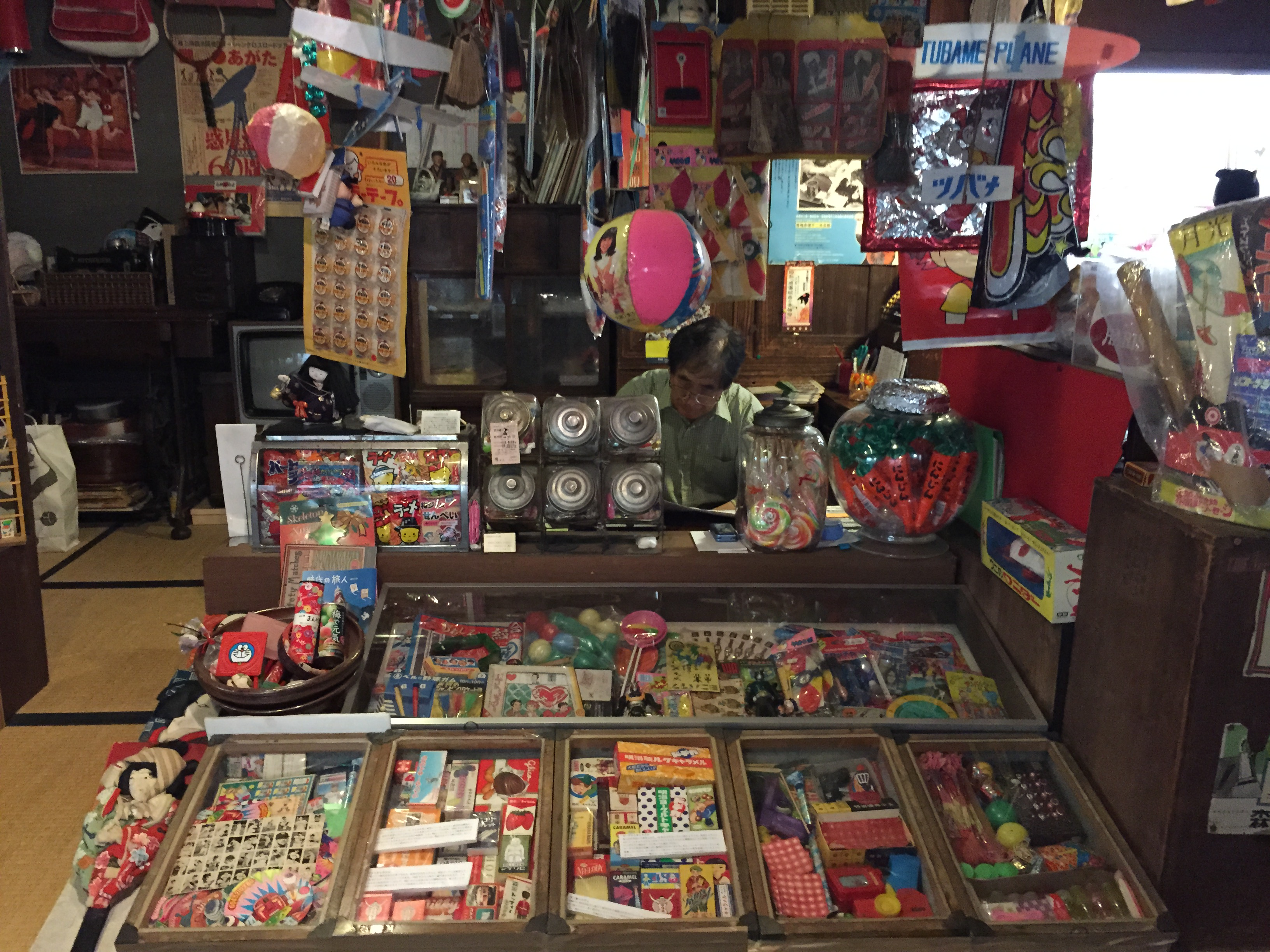 A Riot of Shapes and Colors (Ōme Akasuka Fujio Kaikan Museum (Retro Museum of Packaging from the Showa Era, 1926-1989)